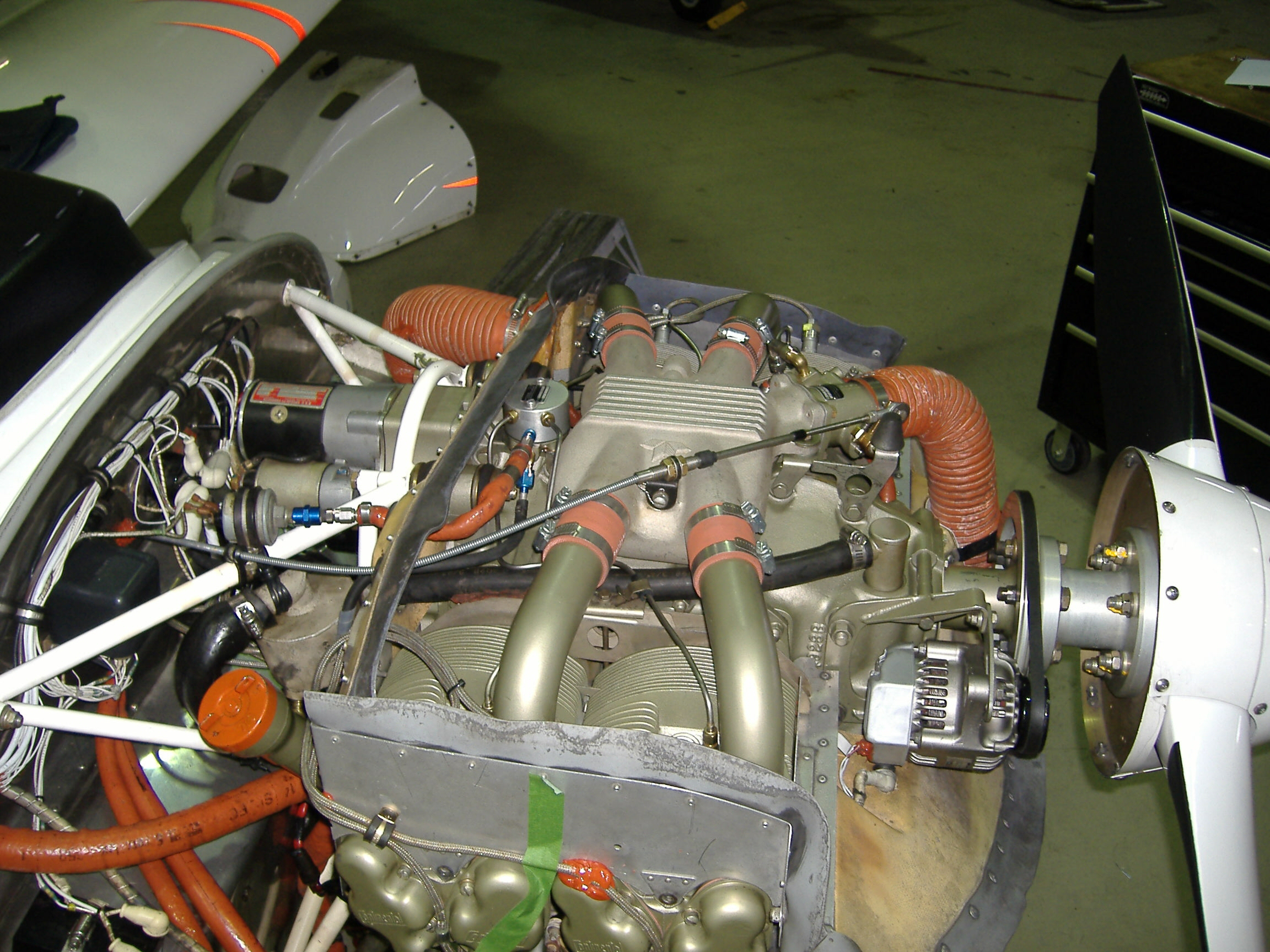 Teledyne Continental Motors IO-240-B aviation piston engine on Diamond DA20-C1 C-GEQA Output power: 125 hp (93.2 kW) at 2800 RPM. Displacement: 239.8 cubic inches (3.9 litres)